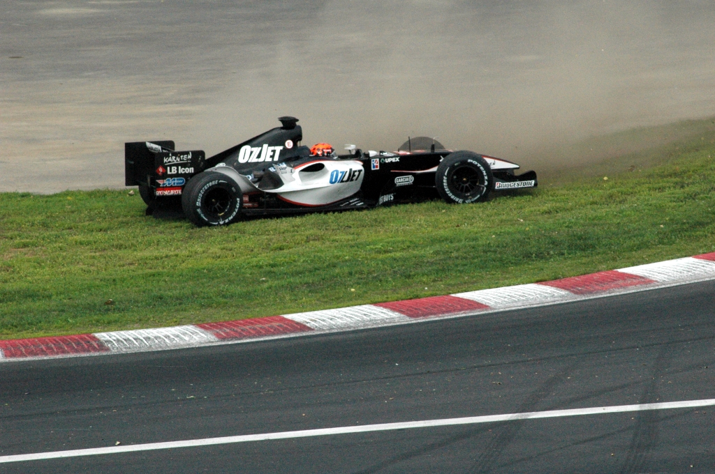 Christijan Albers spins his Minardi at the 2005 Canadian Grand Prix.